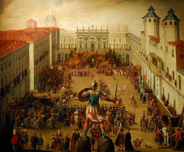 Tournament on the occasion of the marriage of Vittorio Amedeo I and Cristine of France